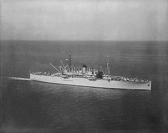 The U.S. Navy seaplande tender USS Wright (AV-1) underway on 15 October 1931.